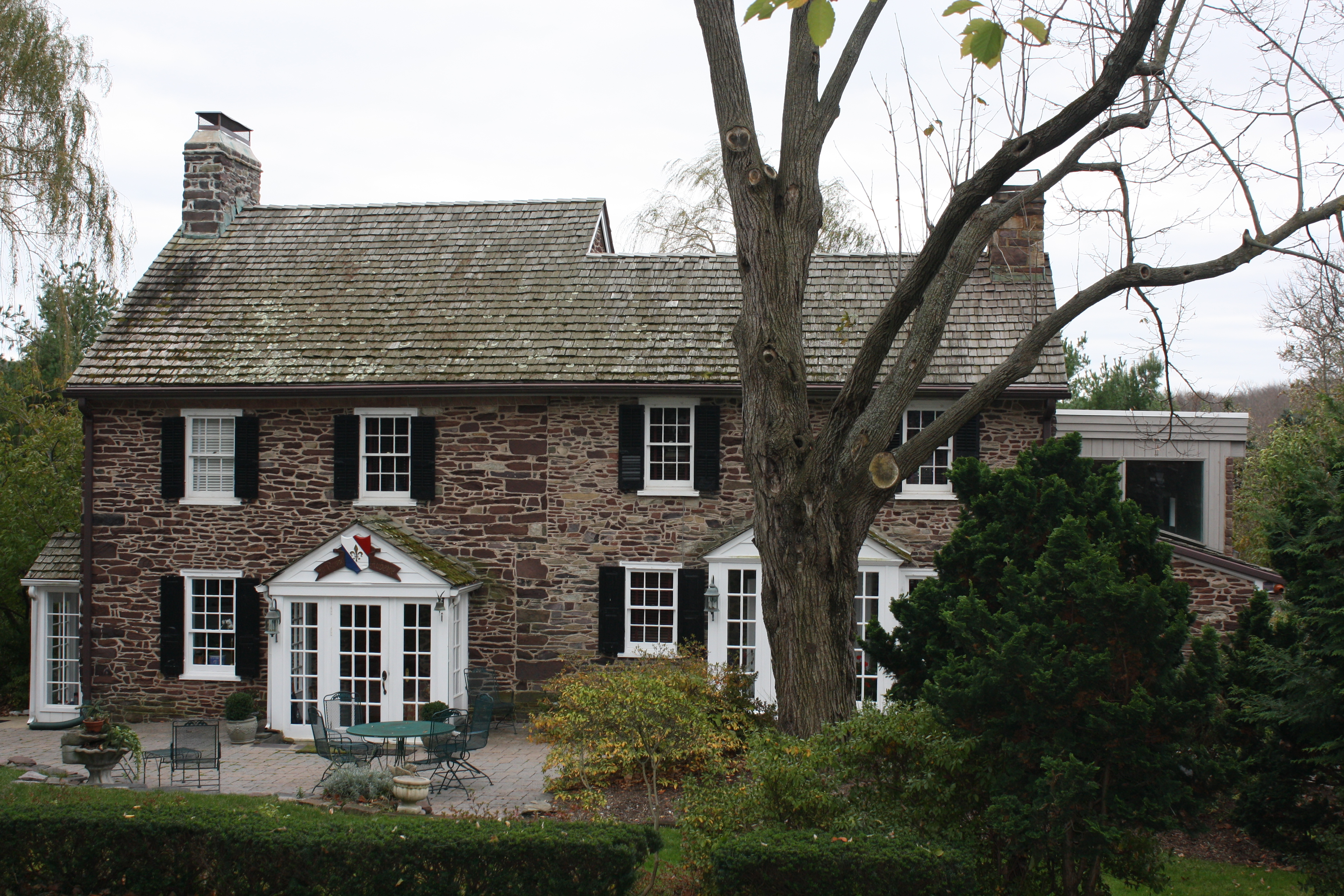 Joshua Ely House (La Bonne Auberge), a historic home located at New Hope, Bucks County, Pennsylvania. Object location40° 21′ 21″ N, 74° 57′ 30″ W